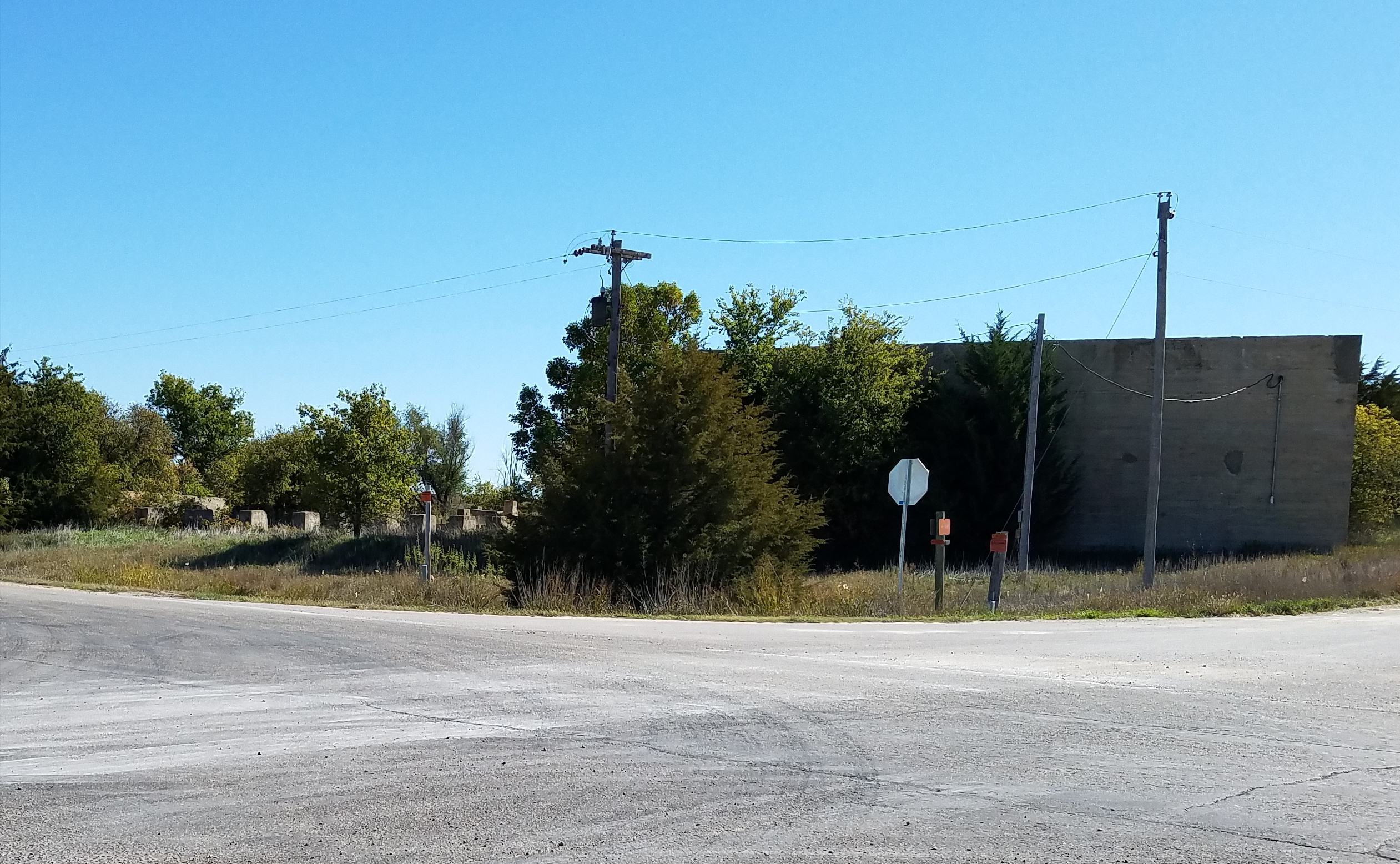 Yocemento cement mill - remaining structures